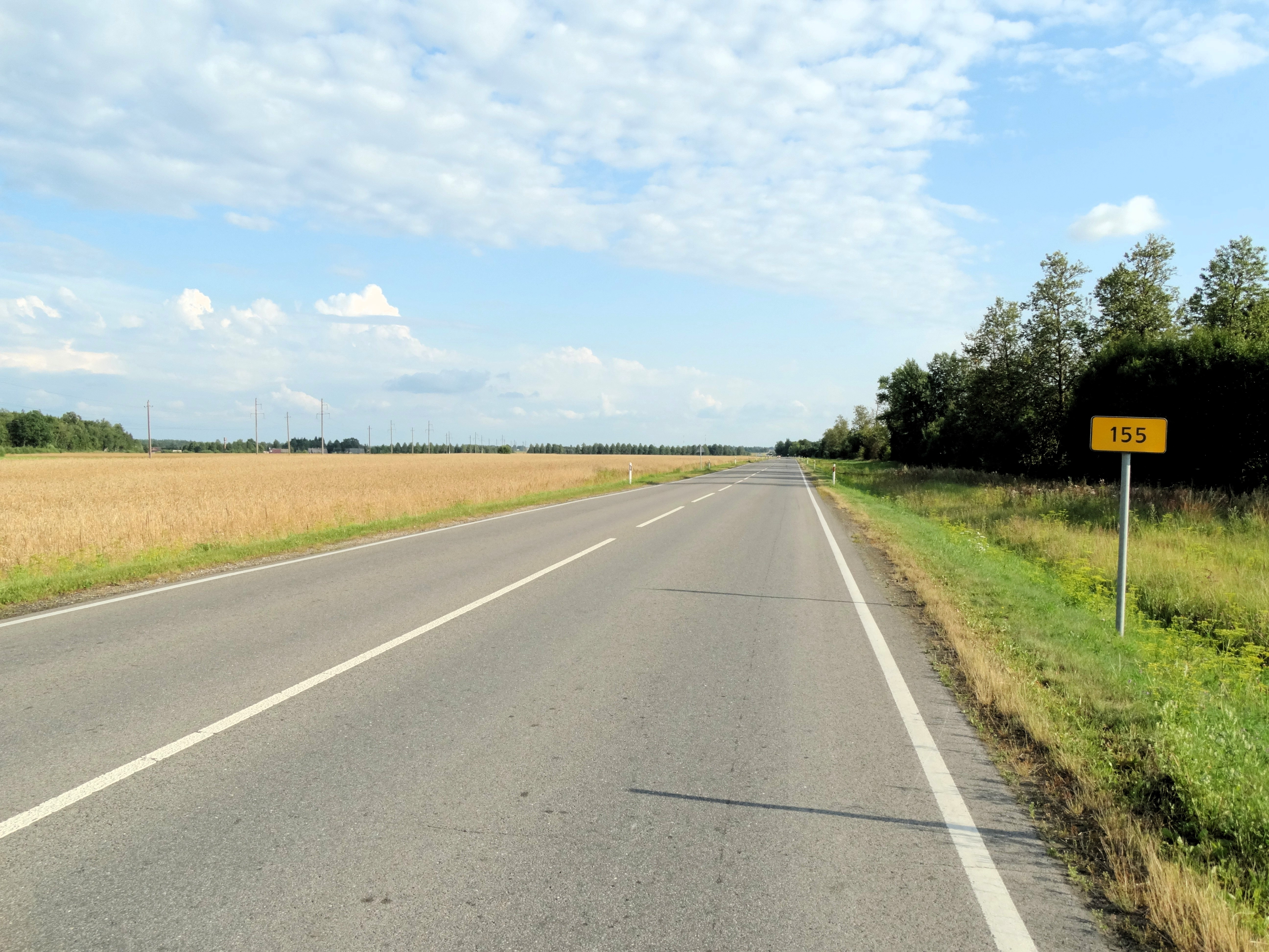 KK155, Šiauliai district, Lithuania